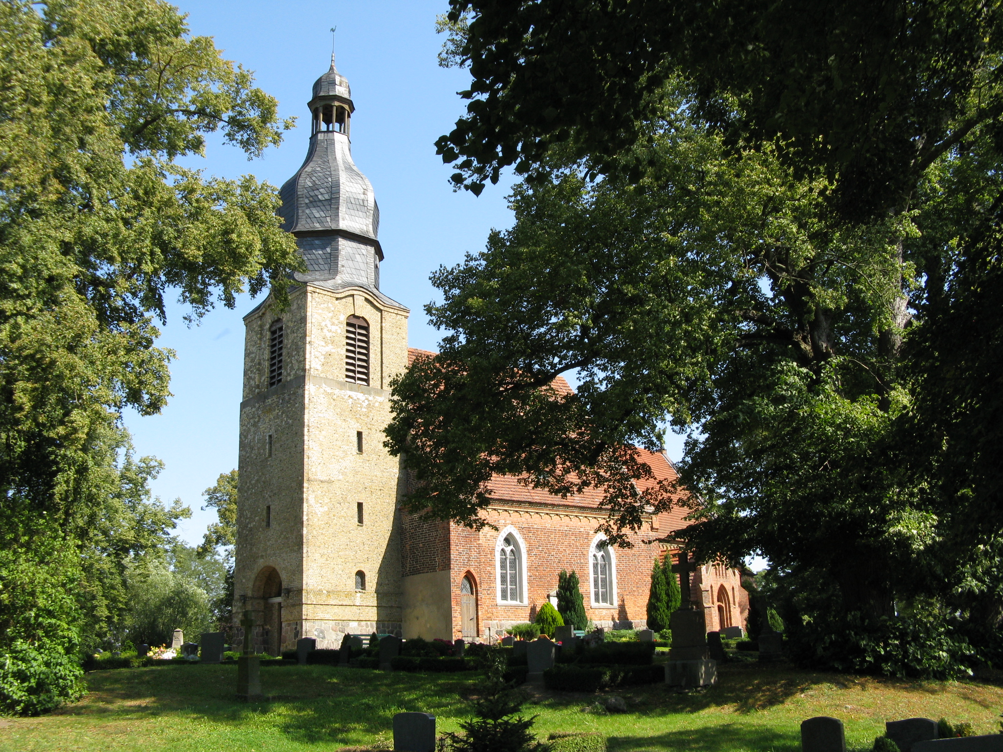 Church in Boddin, disctrict Güstrow, Mecklenburg-Vorpommern, Germany